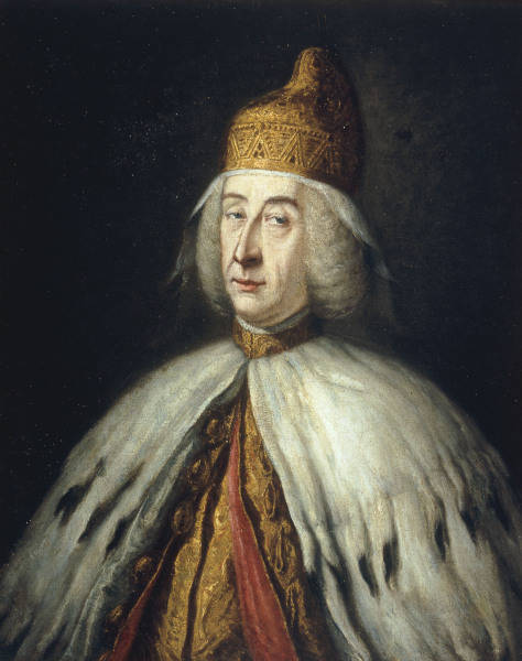 Francesco Loredan, doge of Venice. Oil on canvas, 82 x 66 cm.